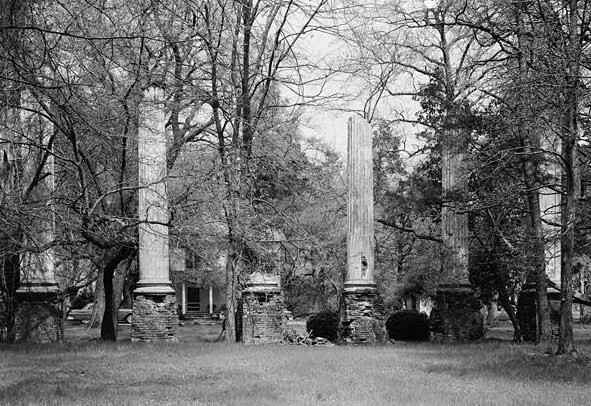 Millwood (Ruins), U.S. Route 76 (Garners Ferry Road), Columbia vicinity (Richland County, South Carolina) - cropped